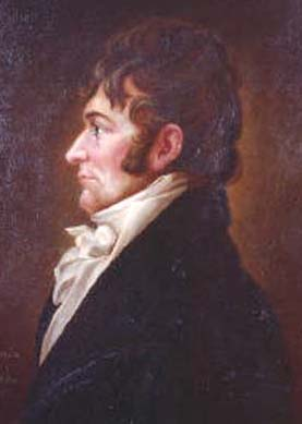 Robert Bowie, governor of Maryland. Medium: Oil on canvas Dimensions: 22" x 27" Location: The State House, First Floor, Room 108